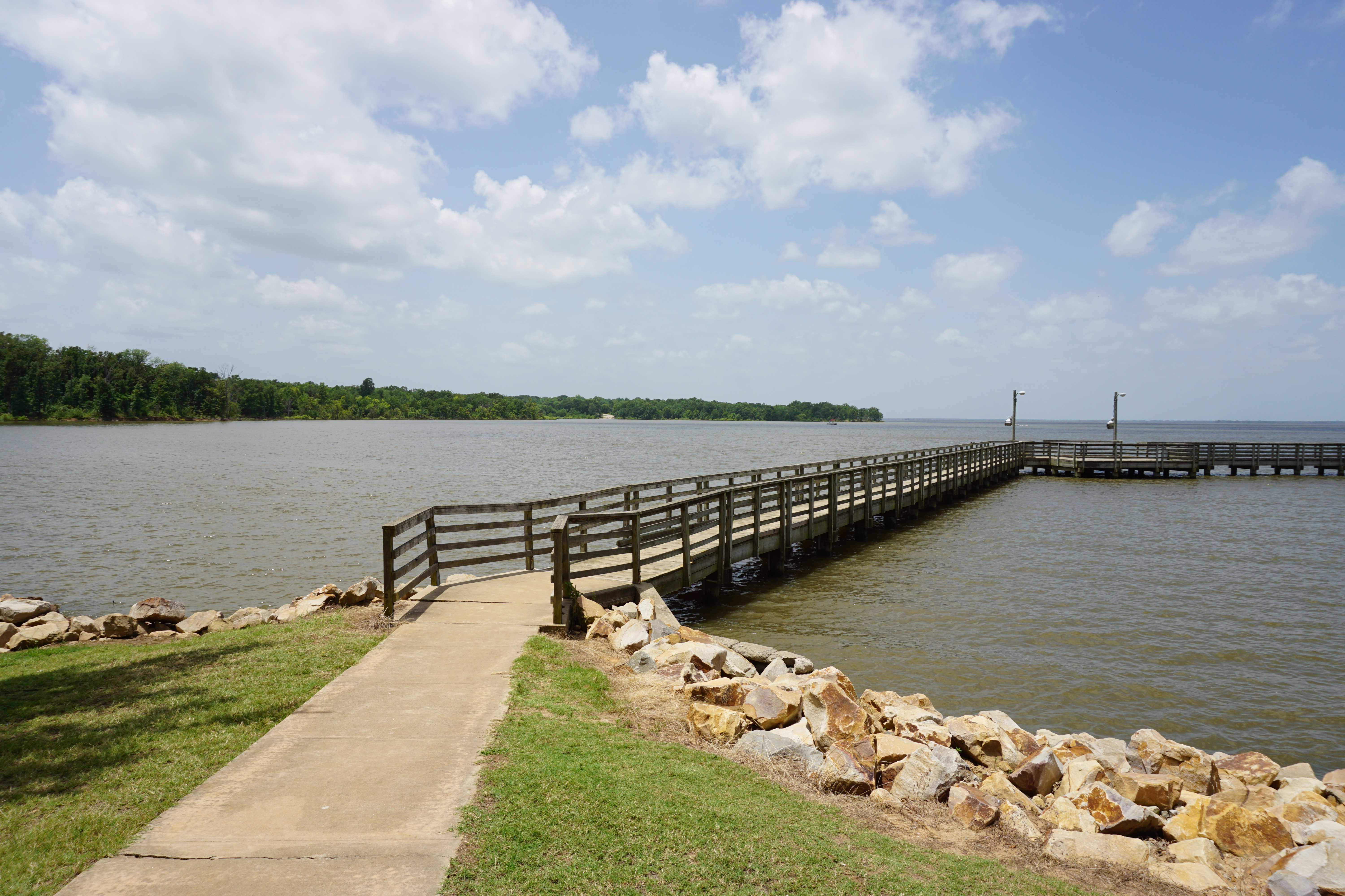 The South Sulphur unit of Cooper Lake State Park in Hopkins County, Texas (United States).